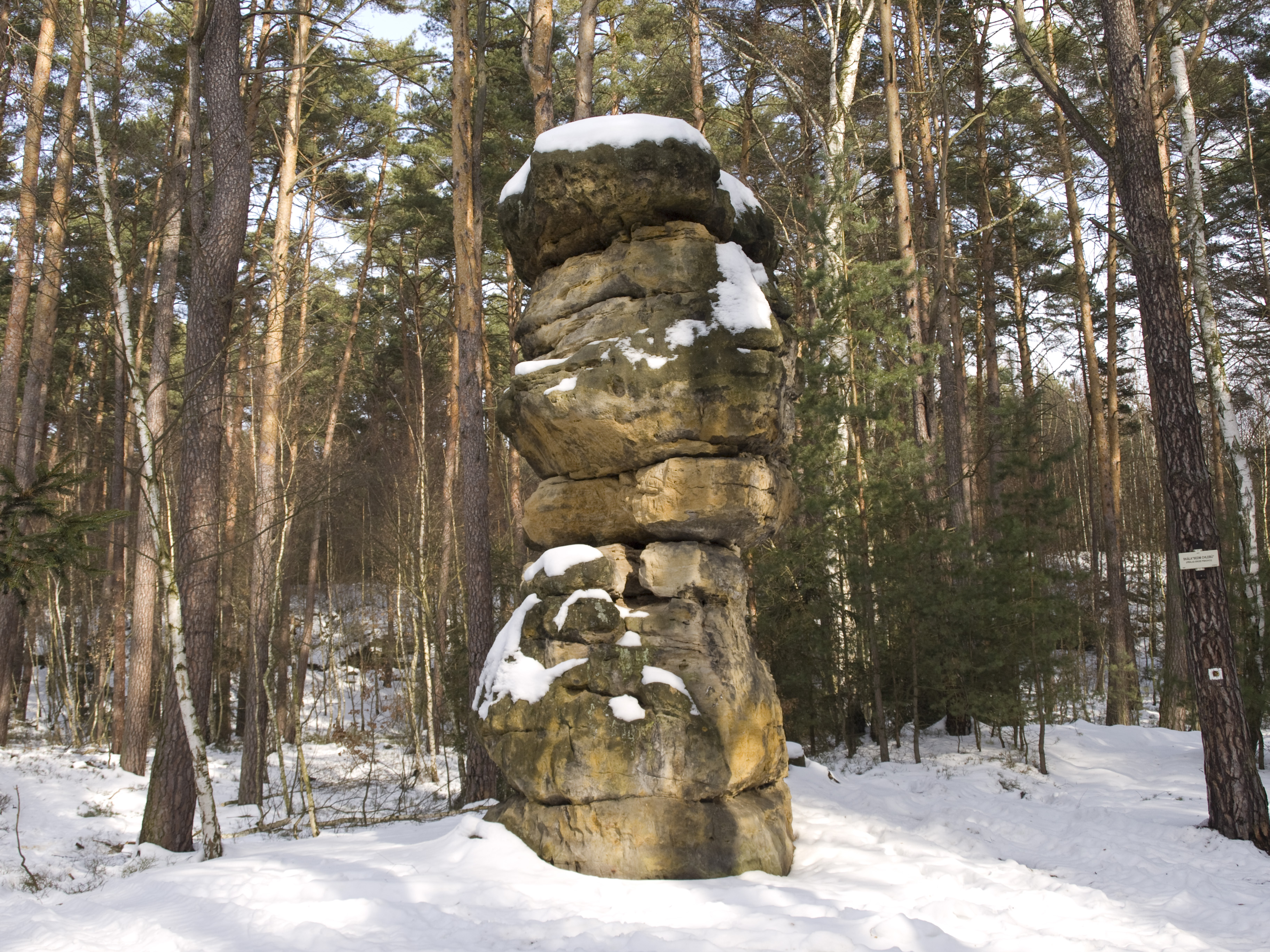 Sedm chlebů, Kokořínsko, Ústí nad Labem Region